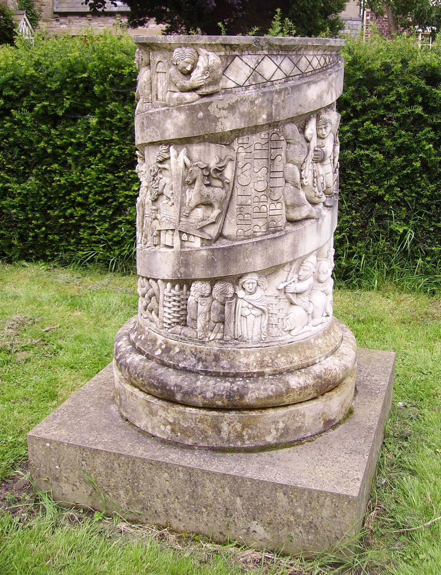 view of Ribchester, United Kingdom